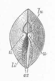 Subject: Venus Tag: Mollusks